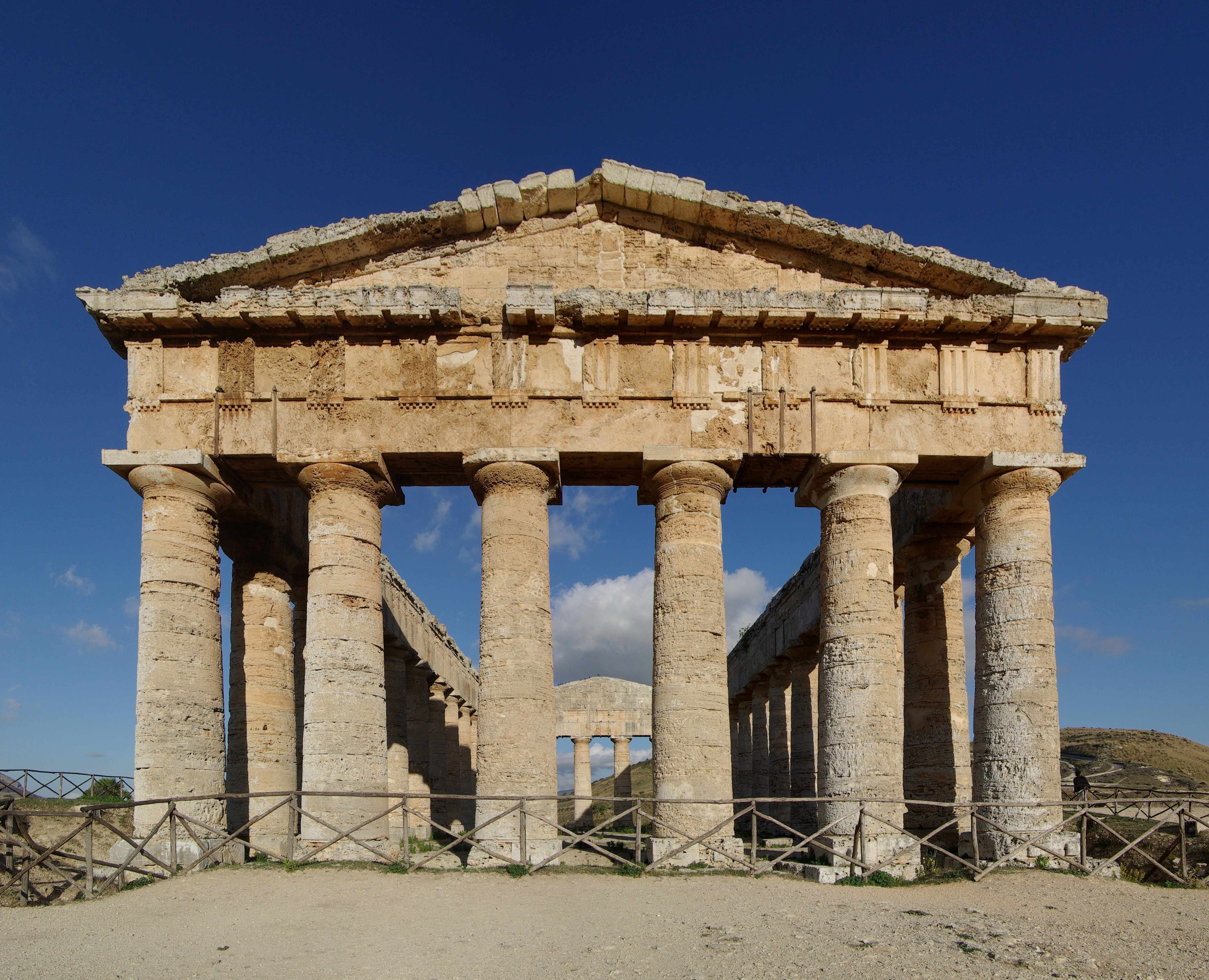 Italy, Sicily, Segesta, temple, west